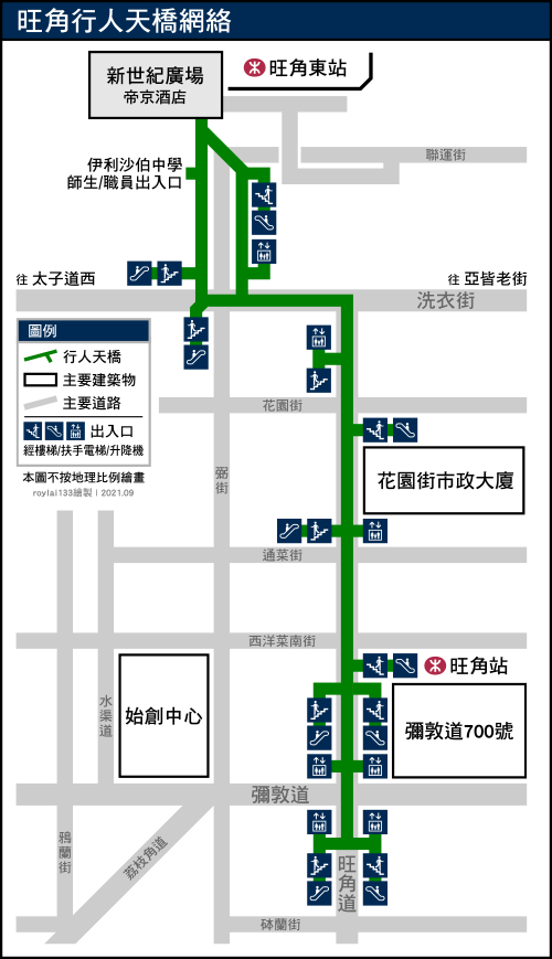 Diagram of New Footbridge System in Mongkok (Chinese version)